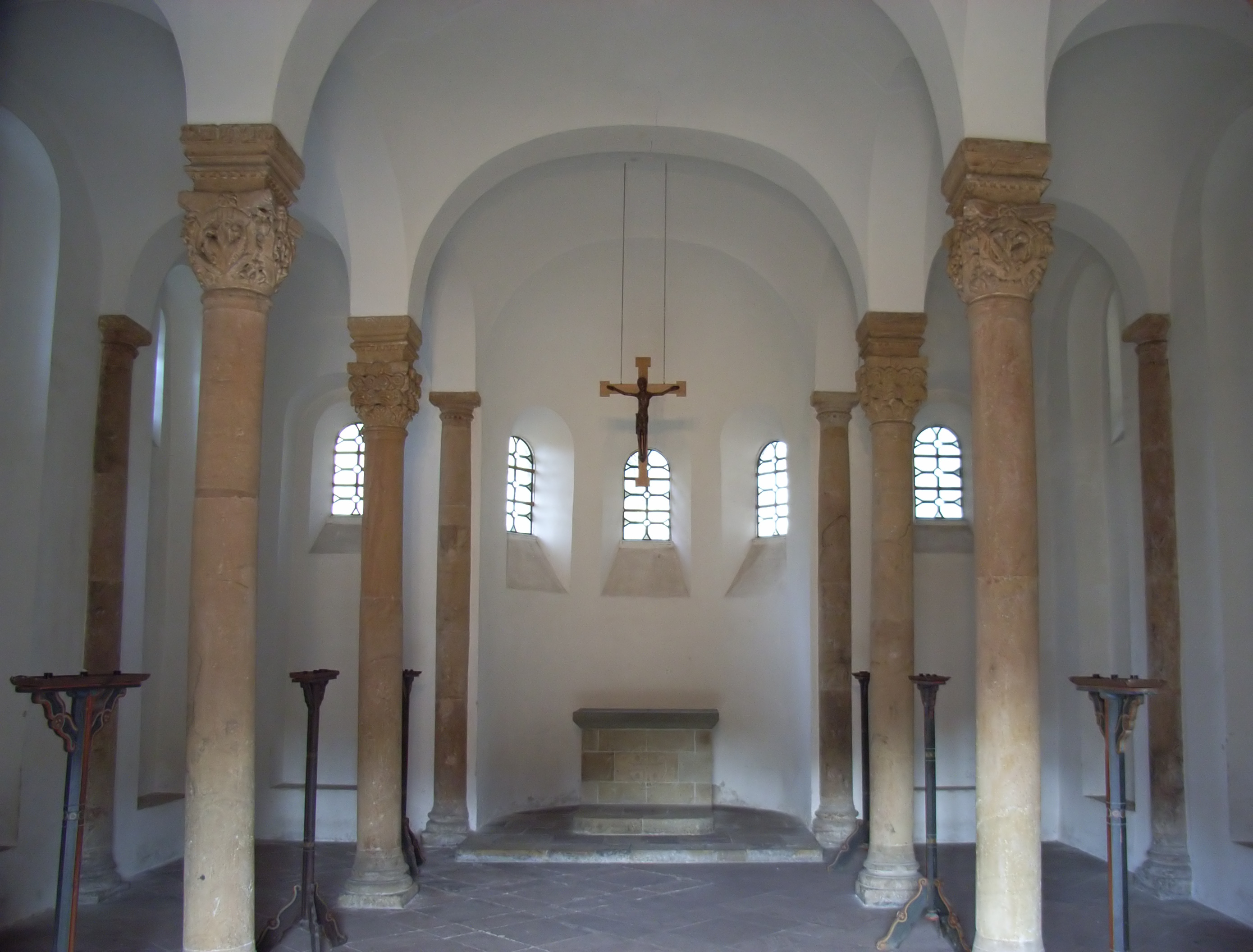 Paderborn, Germany: Bartholomew Chapel next to Paderborn Cathedral. The chapel was built around 1017 and is deemed to be the oldest known hall church northwards the alps.